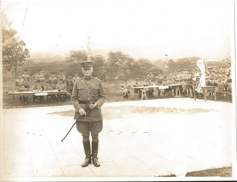 Maj. Gen. Edward Mann Lewis leads exercises in defending the Hawaiian Islands in 1925